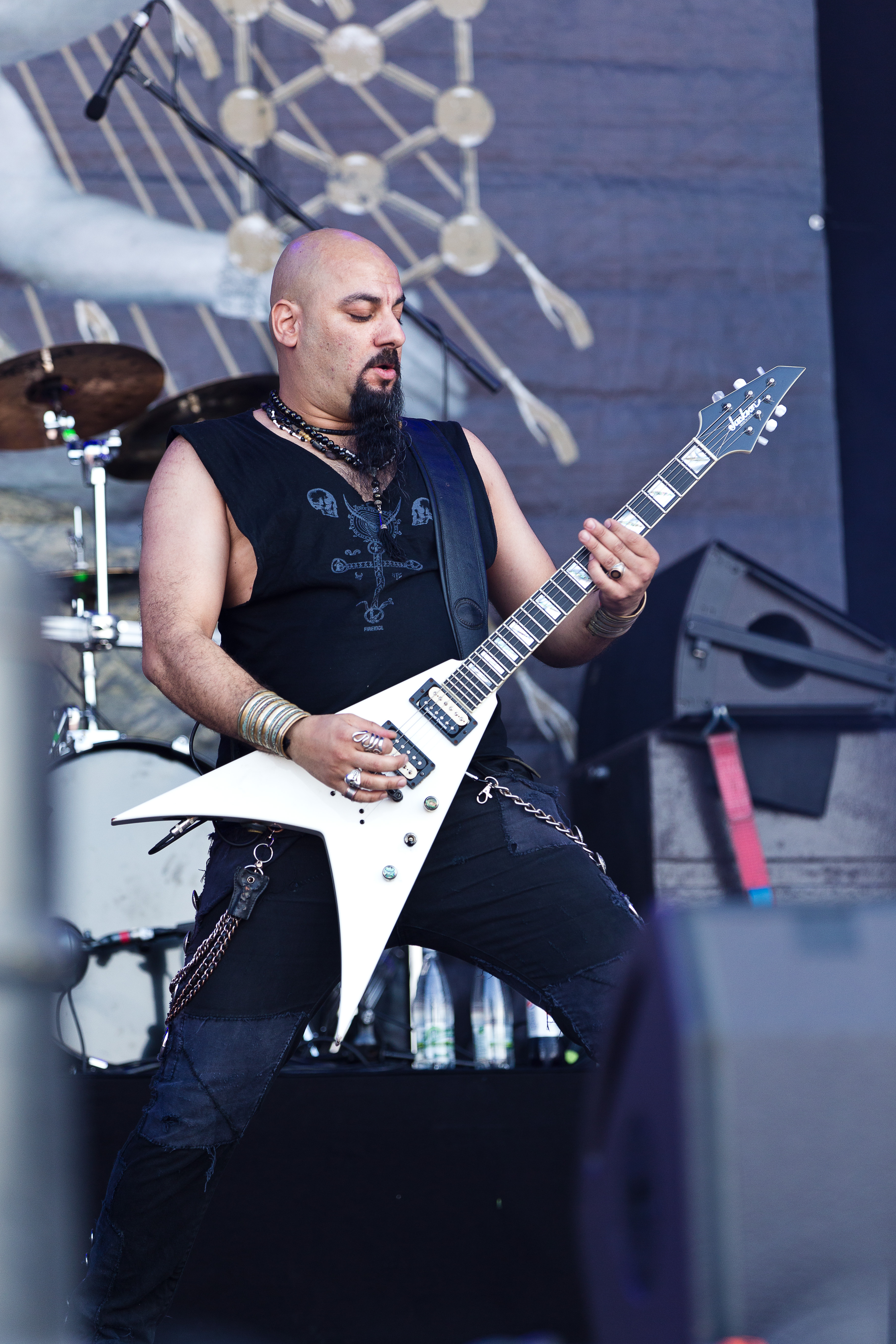 The Israeli black metal band Melechesh at the Party.San Open Air 2015 in Obermehler-Schlotheim/Germany.